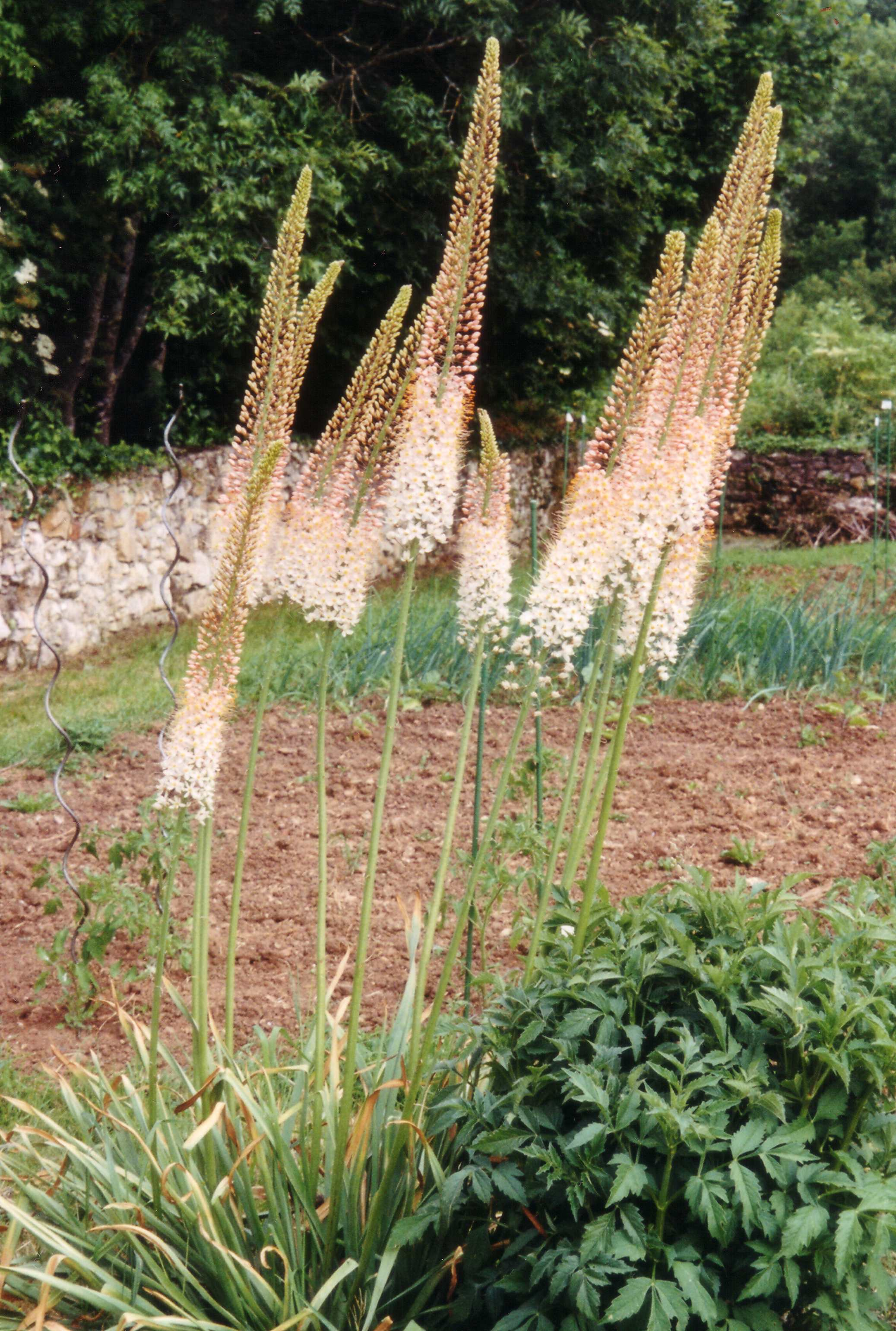 Eremurus Shelford in a garden in Dordogne, France